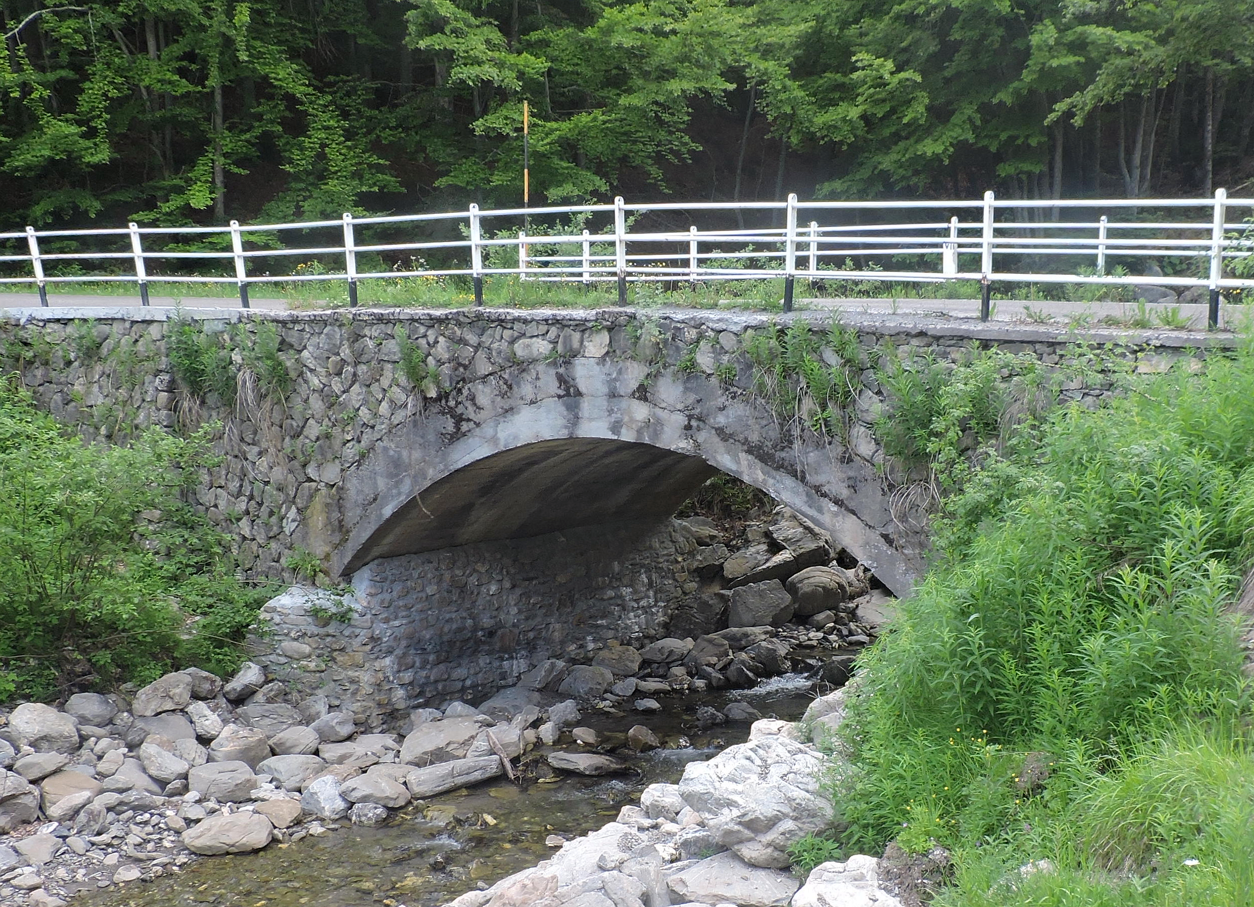 Provincial road nr. 154: bridge on the torrente Corvo (Ligurian Alps, CN, Italy)